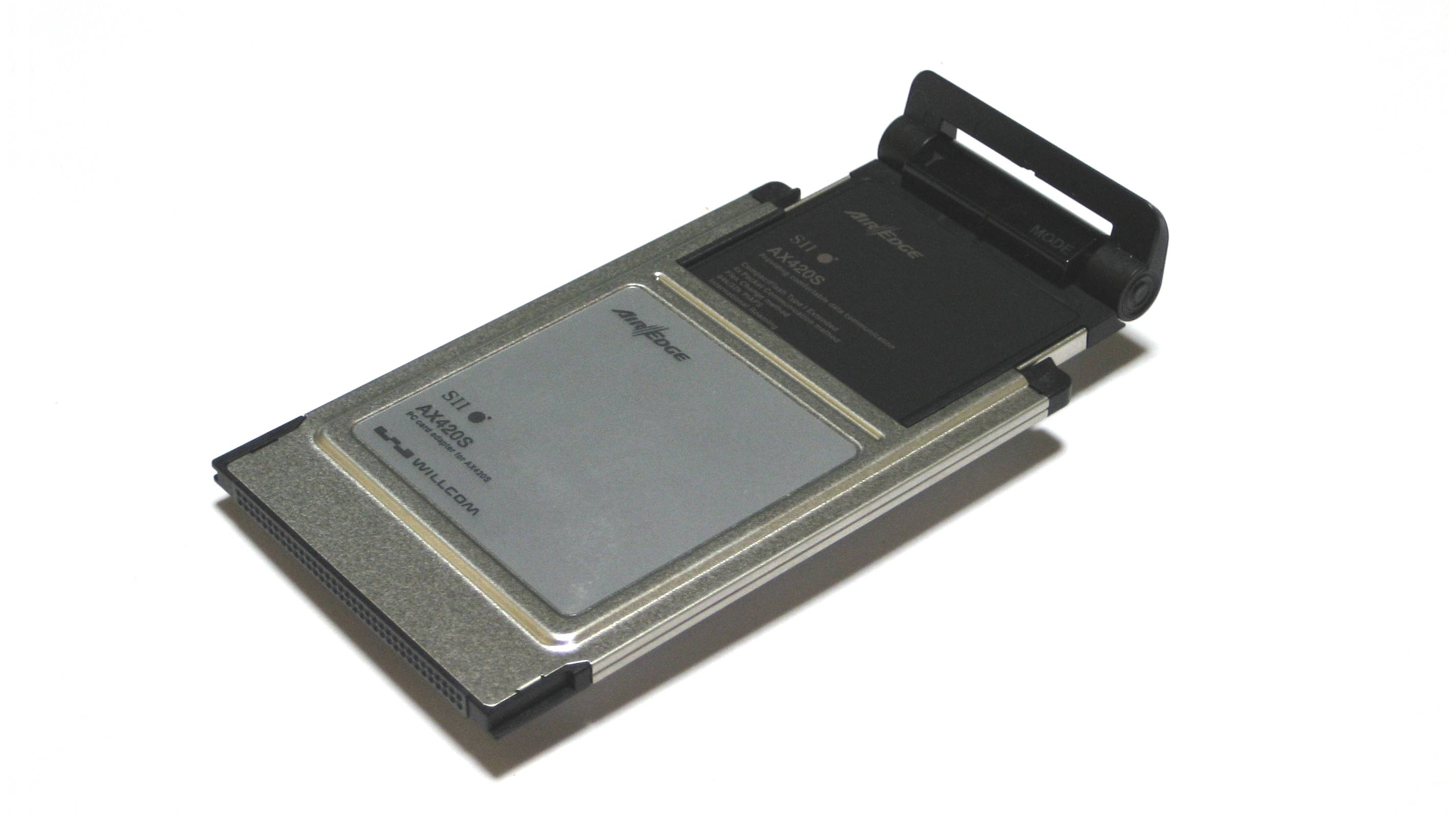 AX420S is an AIR-EDGE PHS communication card. It was made by Seiko Instruments Inc (SII). Insert in a PC card slot on your PC, and expand an antenna.